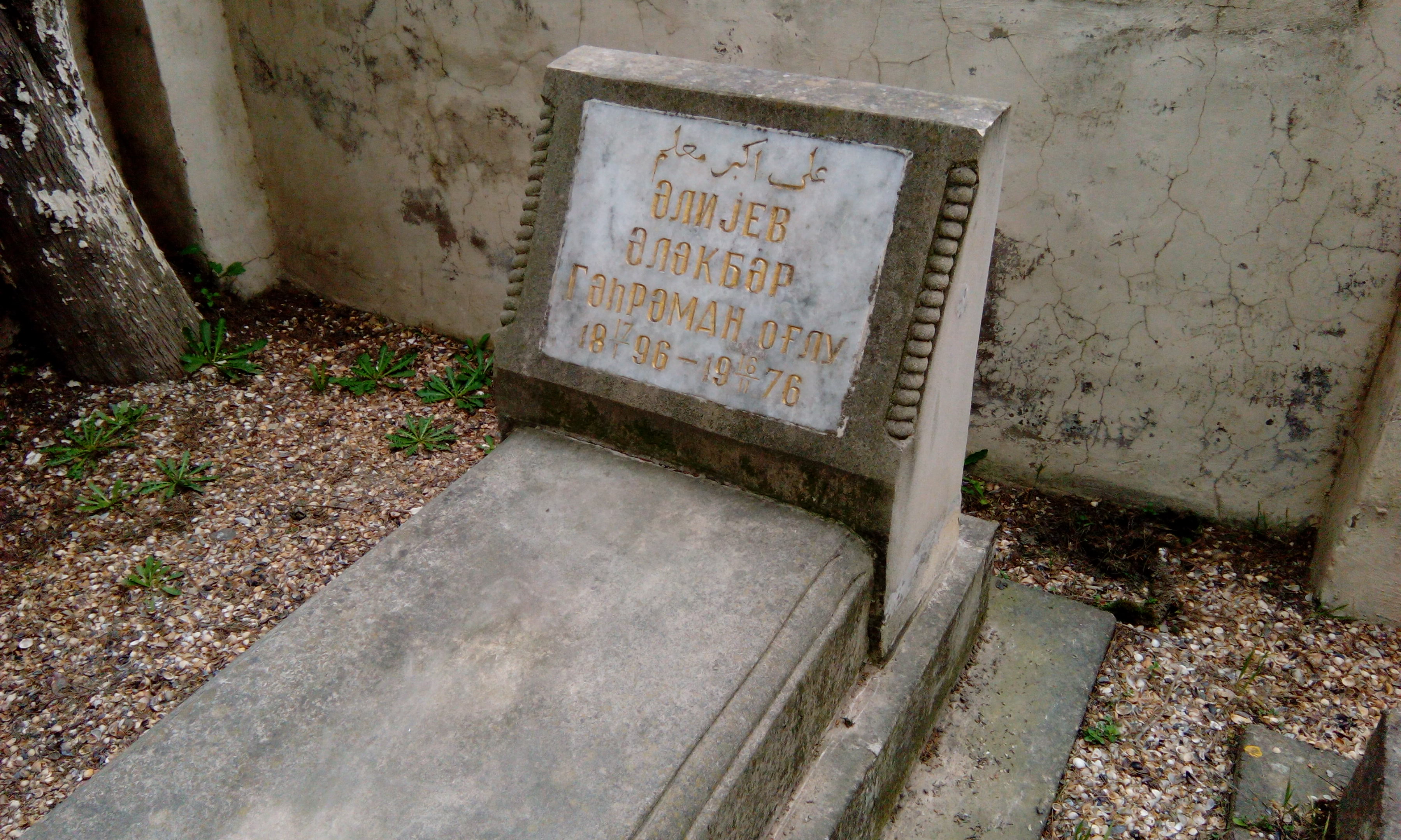 Grave of Alakbar bay Aliyev in Baku, Azerbaijan.